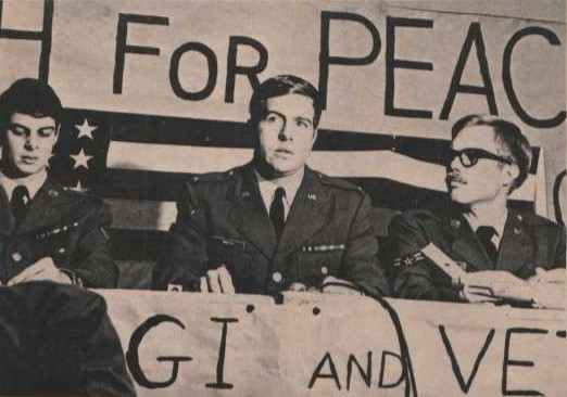 Airmen First Class Michael Locks and John Bright, and Second Lieutenant Hugh Smith appeared in their Air Force uniforms promoting the GIs & Veterans for Peace march on October 12, 1968